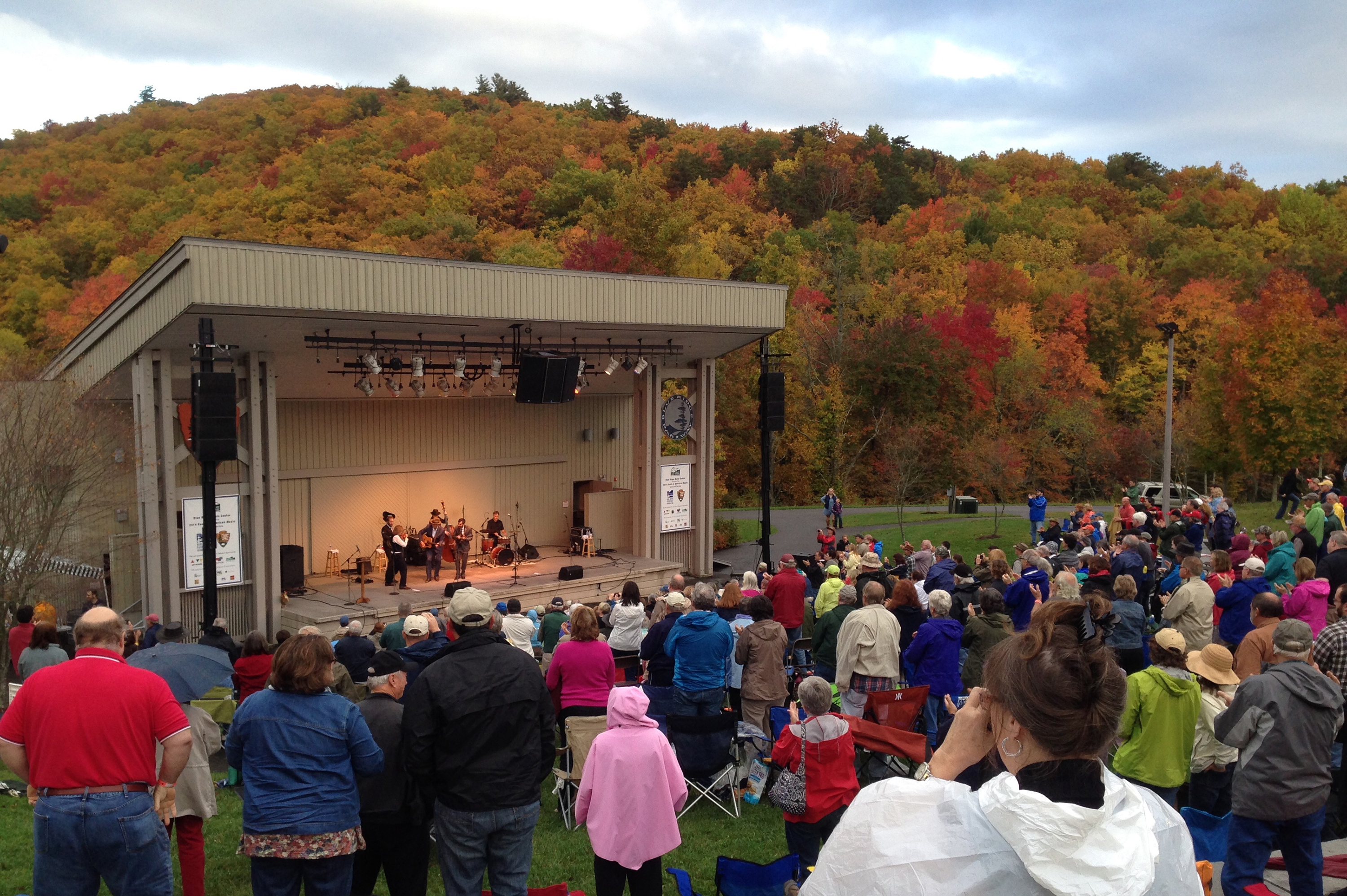 The Blue Ridge Music Center near Galax, Virginia, hosts concerts spring through fall at its outdoor amphitheater on the Blue Ridge Parkway.